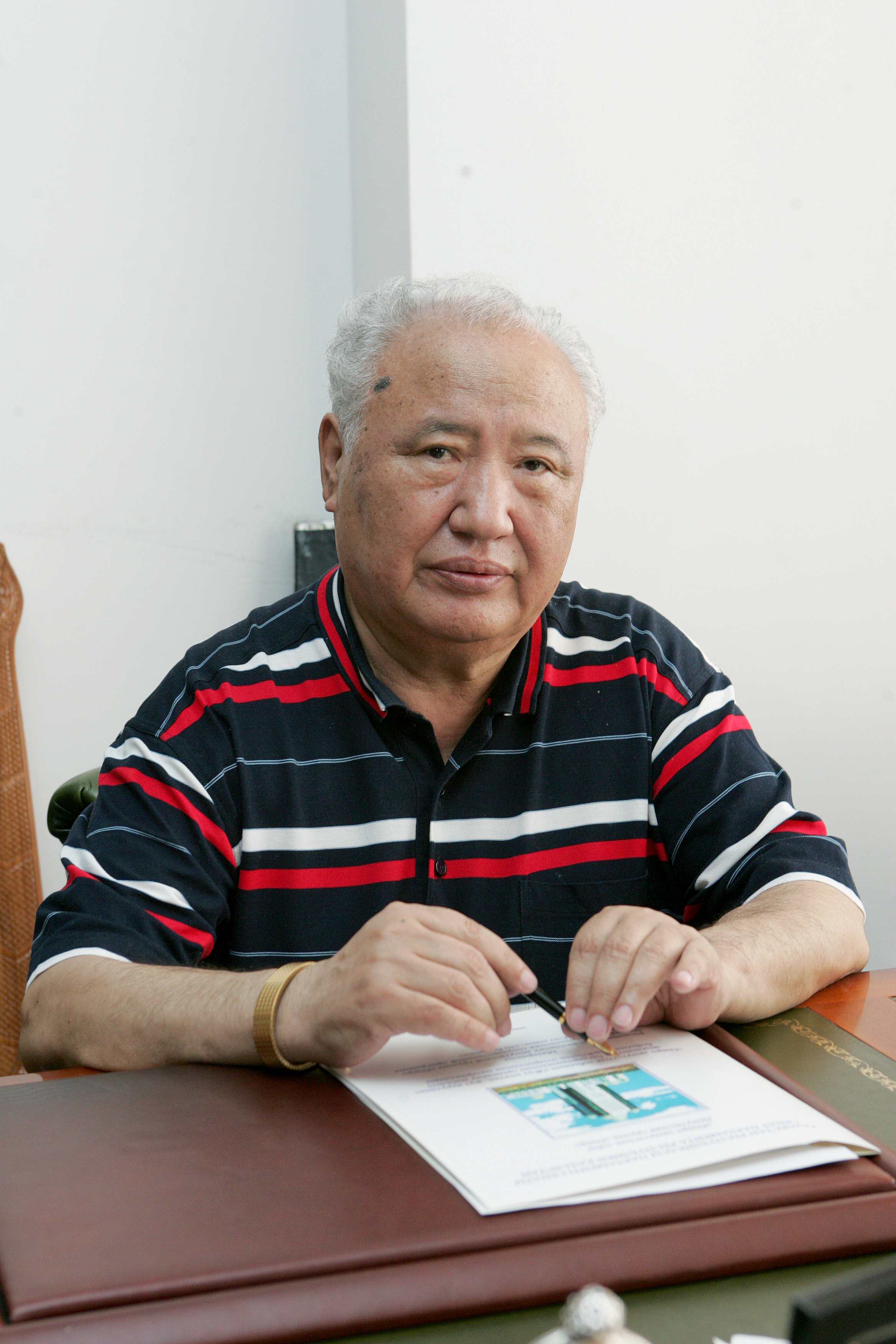 Abish Kekilbayev, Secretary of State Repiblic of Kazakhstan, Senator of the Parliament of Kazakhstan